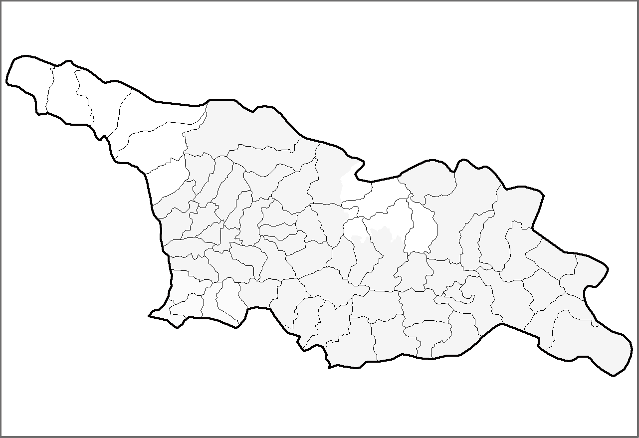 Map of the districts of the country of Georgia.